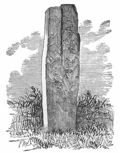 Tresvennack Longstone - Cornwall - UK